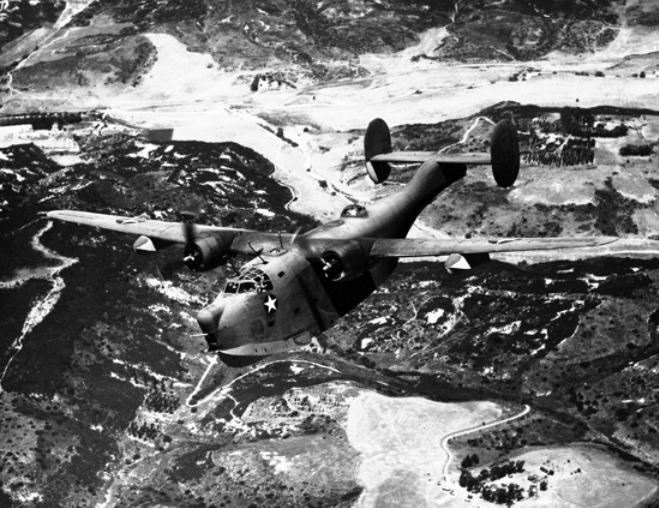 A U.S. Navy Consolidated XP4Y-1 Corregidor (BuNo.44705) in flight.